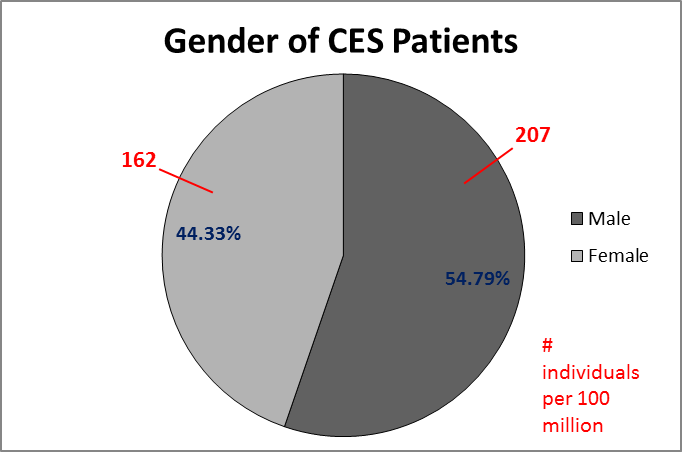 Gender of CES patients admitted to the hospital. CES is slightly more common in men than women.